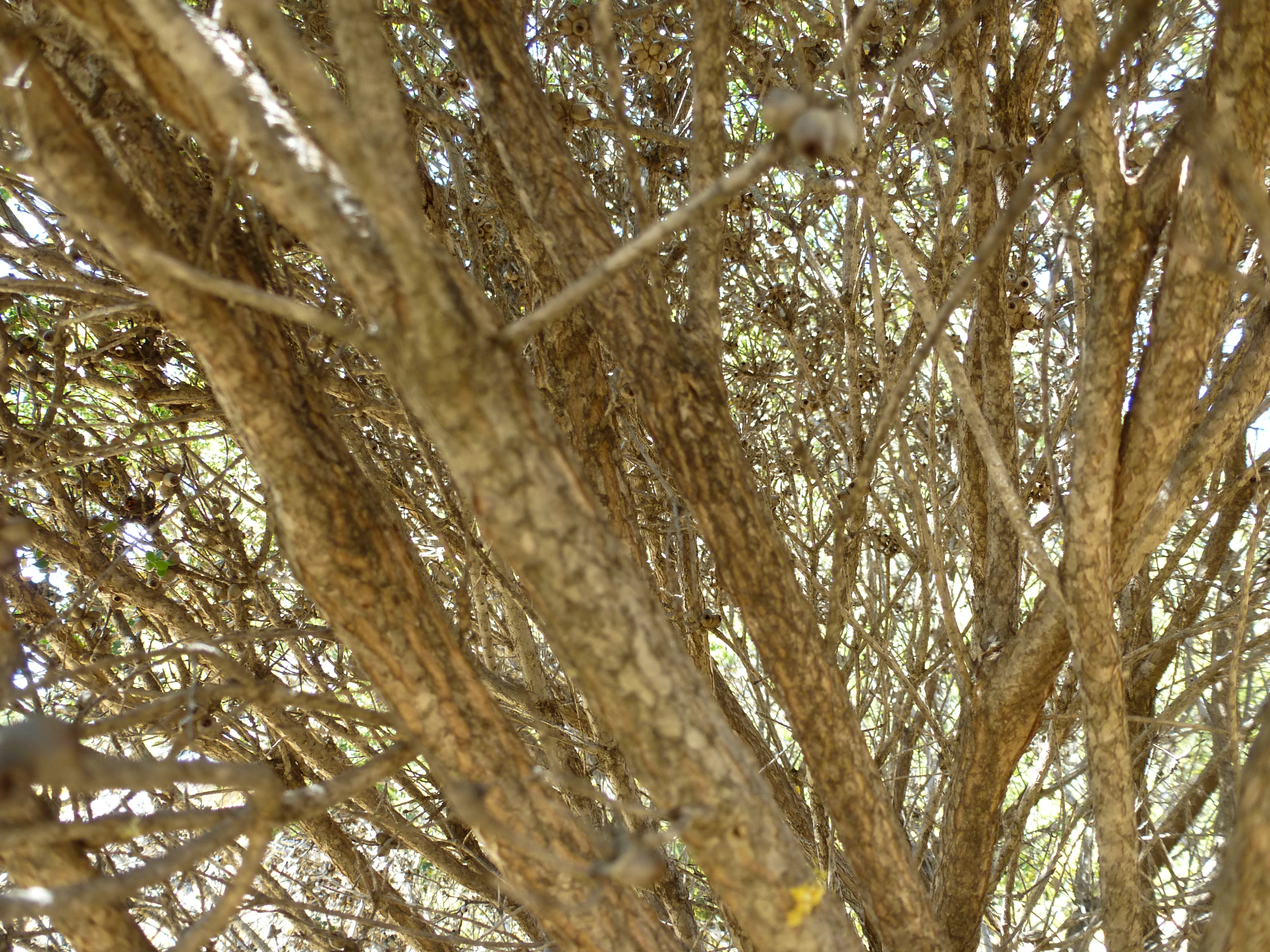 Melaleuca huttensis growing at the type location near Coronation Beach Road